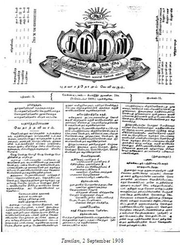 Oru paisa tamilan 2